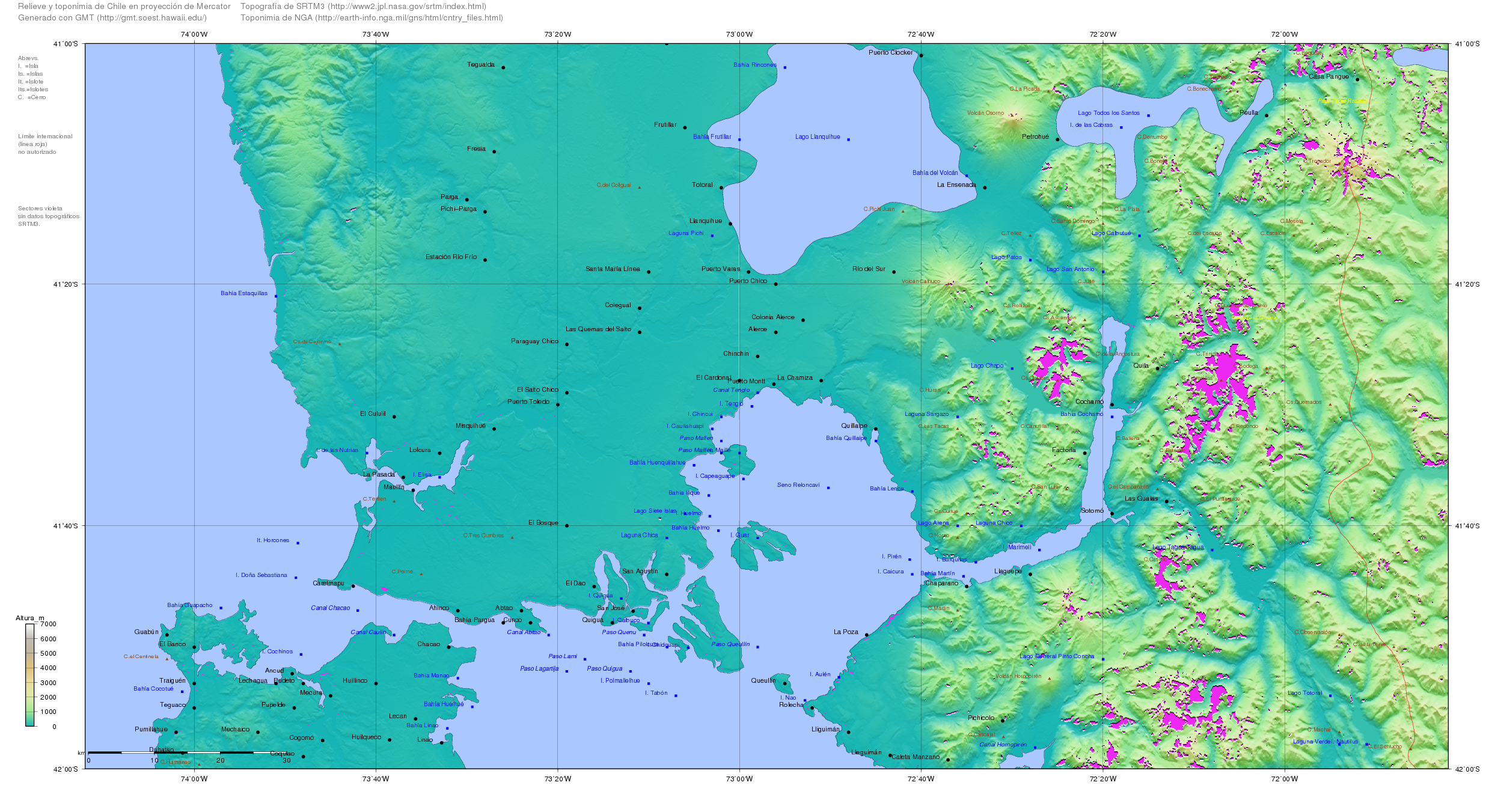 Map of Chile generated with GMT ( topography from SRTM ftp://e0srp01u.ecs.nasa.gov/srtm/version2/SRTM3/ and toponymy from